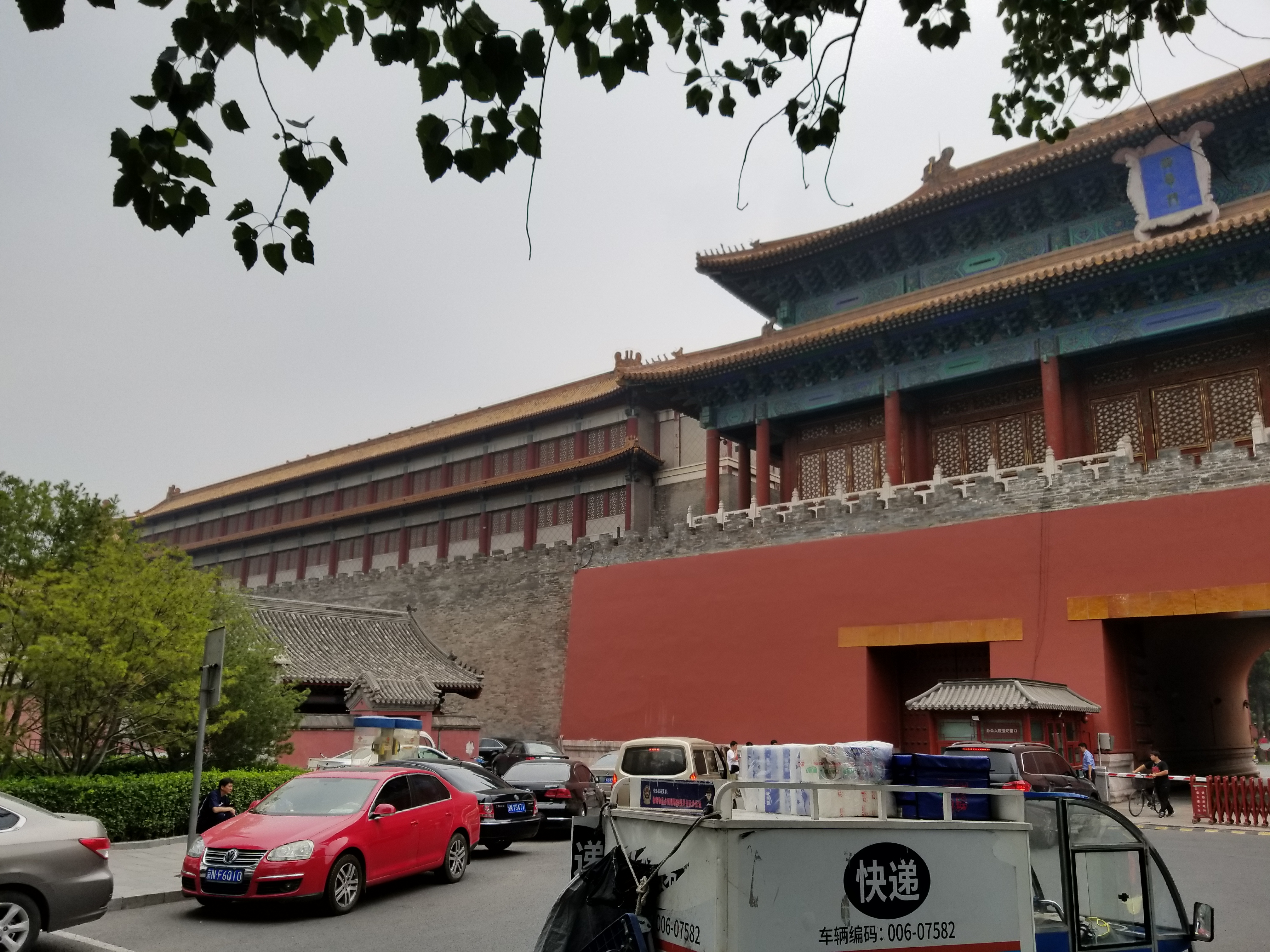 Forbidden City